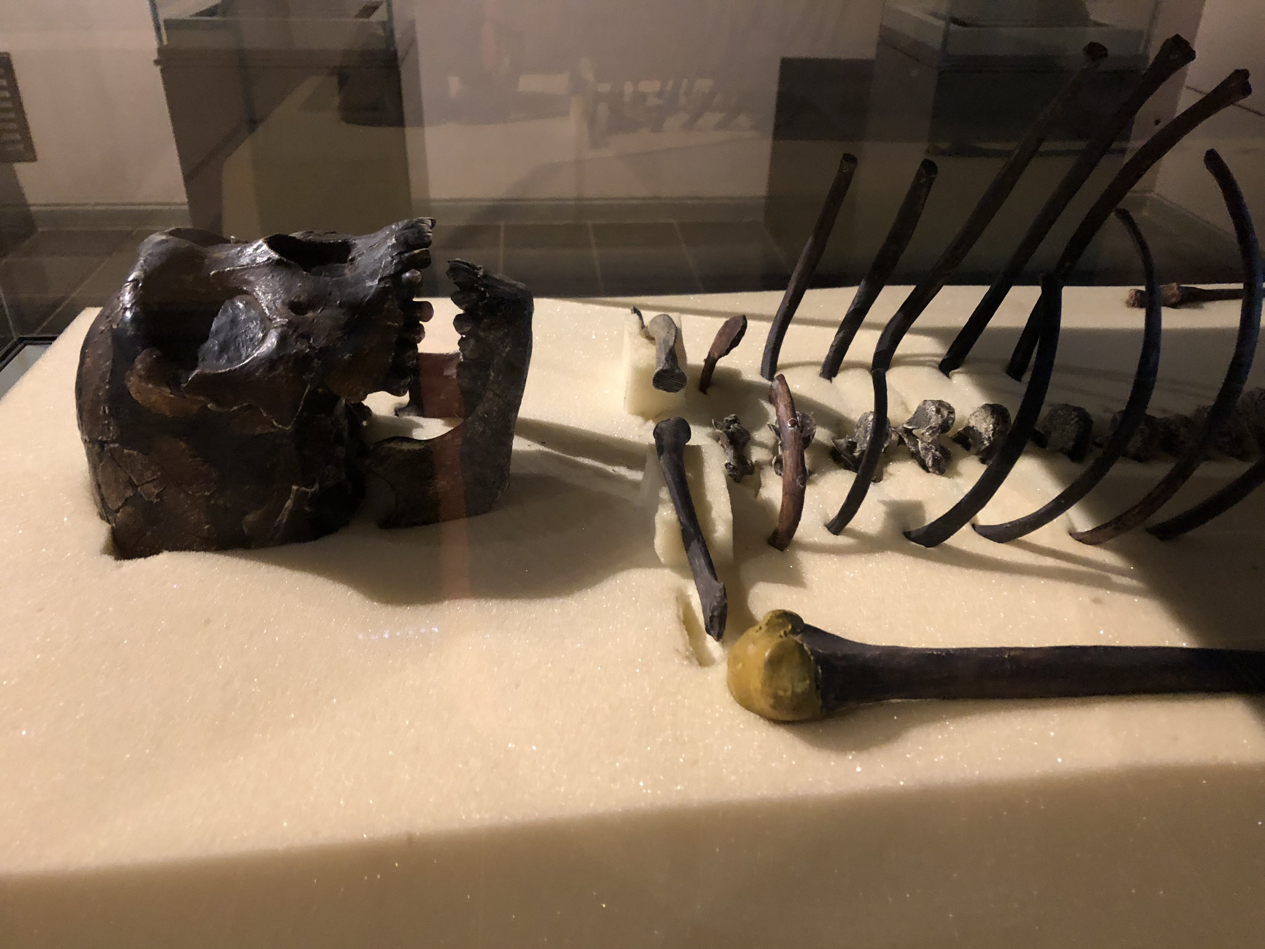 Homo Erectus Turkana not a cast from Kenya museum